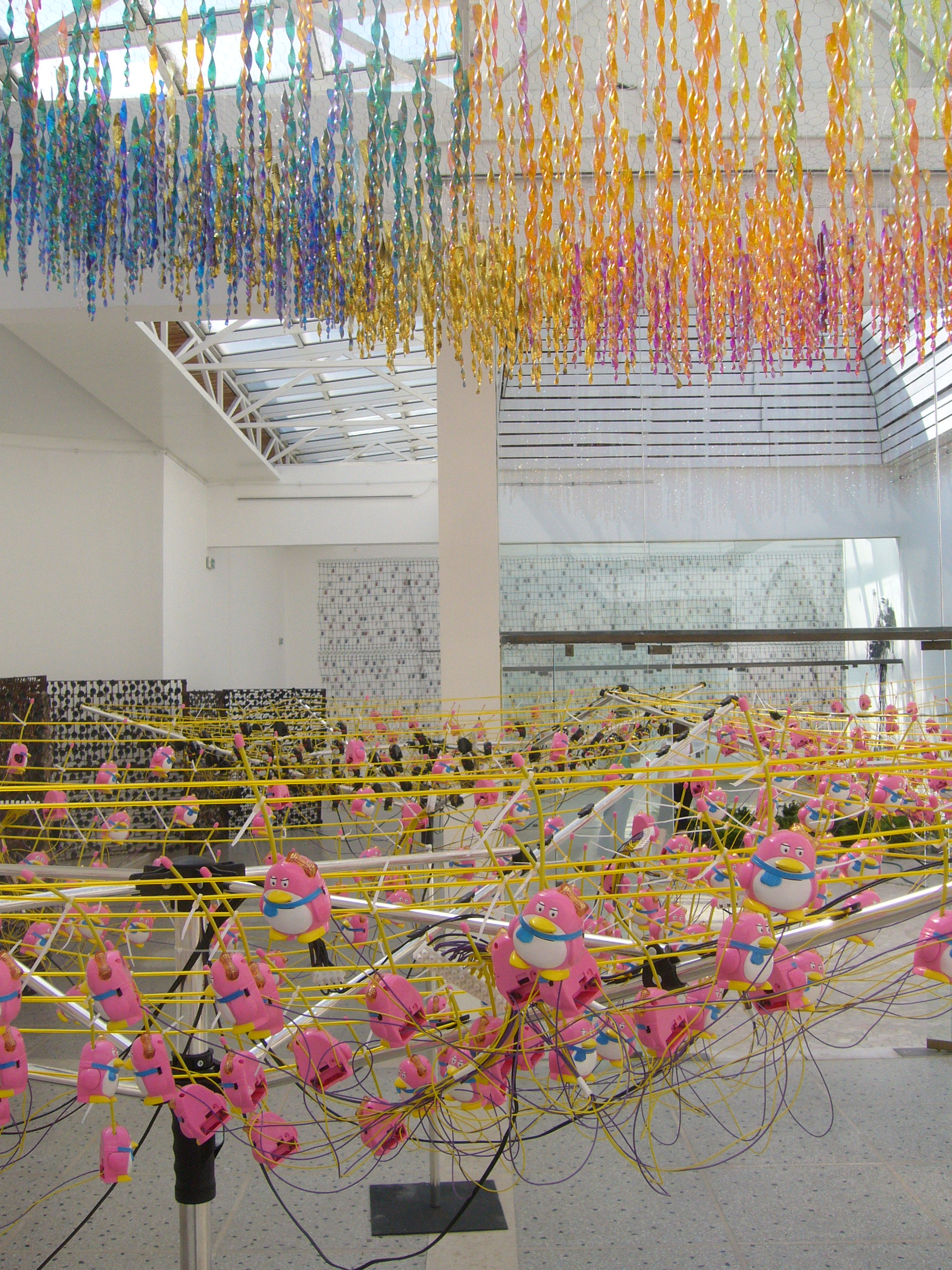 From "Our installation presents an alternative contemporary architectural experience built from thousands of functioning networked Chinese toys. Instead of form we focus on the system, instead of authored design we create DIY methods, instead of high tech materials we re-appropriate cheap and ubiquitous technologies." Adam Somlai-Fischer.